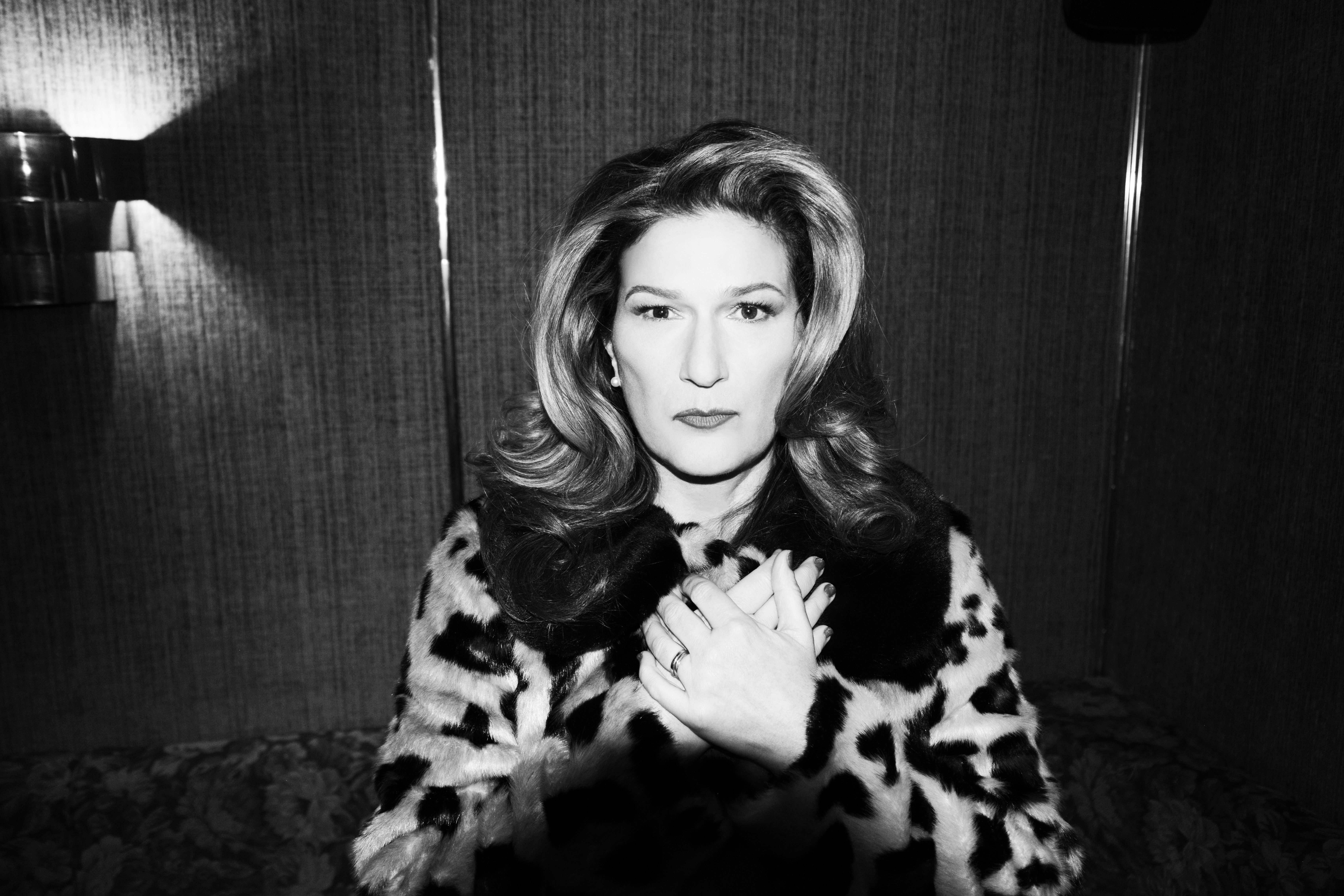 Ana Gasteyer Profile shot by Shervin Lainez.